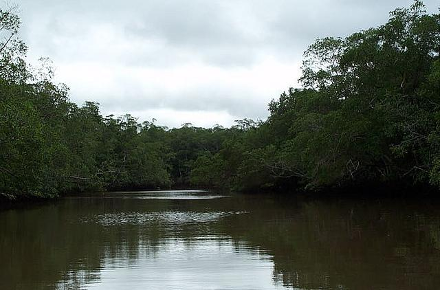 Matapalo River, Tamarindo, Guanacaste, Costa Rica. In Las Baulas National Marine Park.